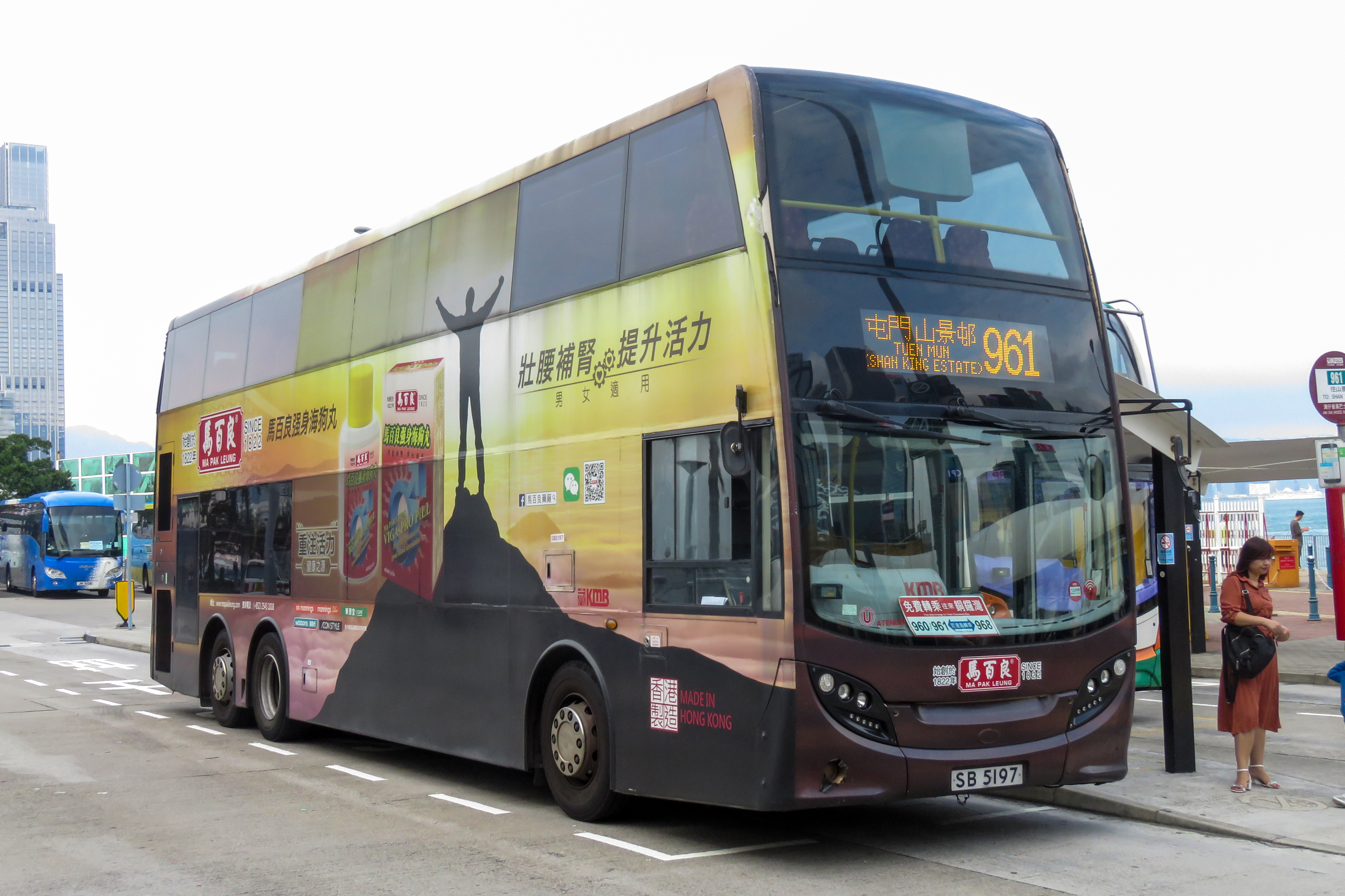 I wonder how many mainland tourists use this route to reach the Golden Bauhinia...